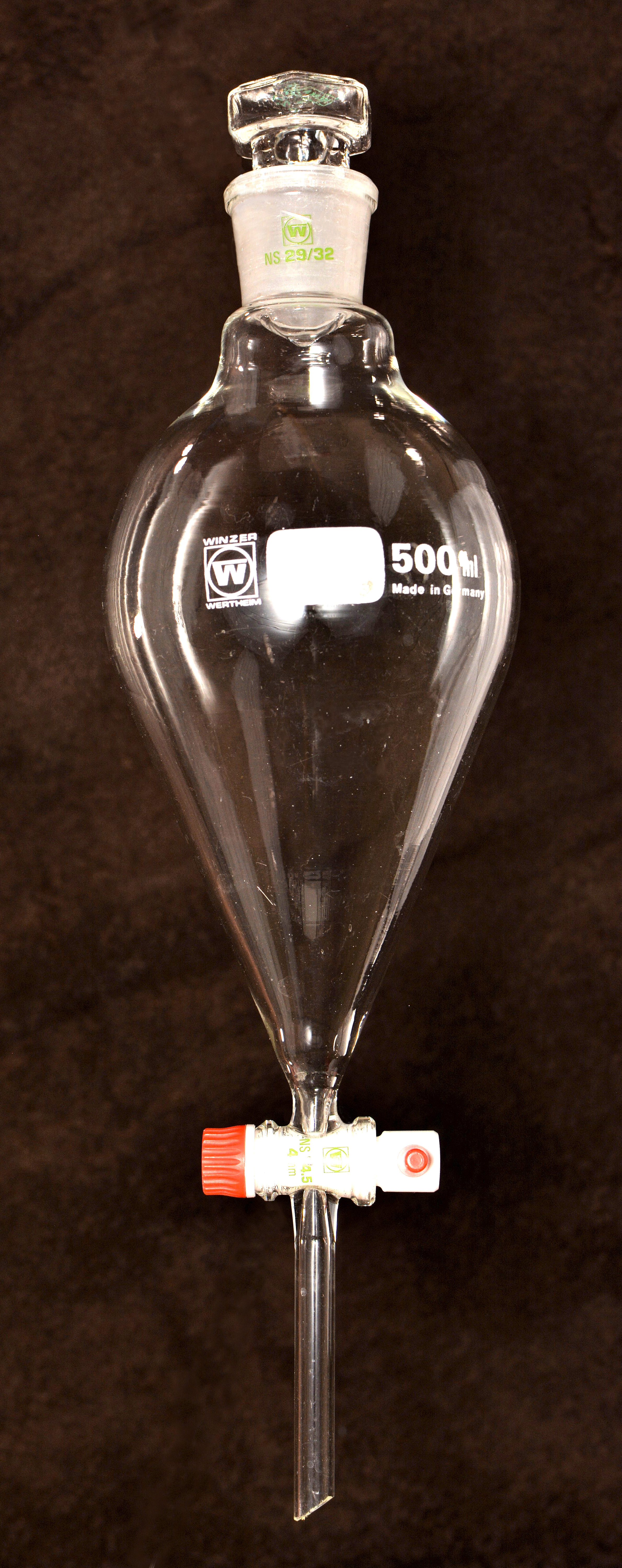 Seperatory Funnel in front of brown backround